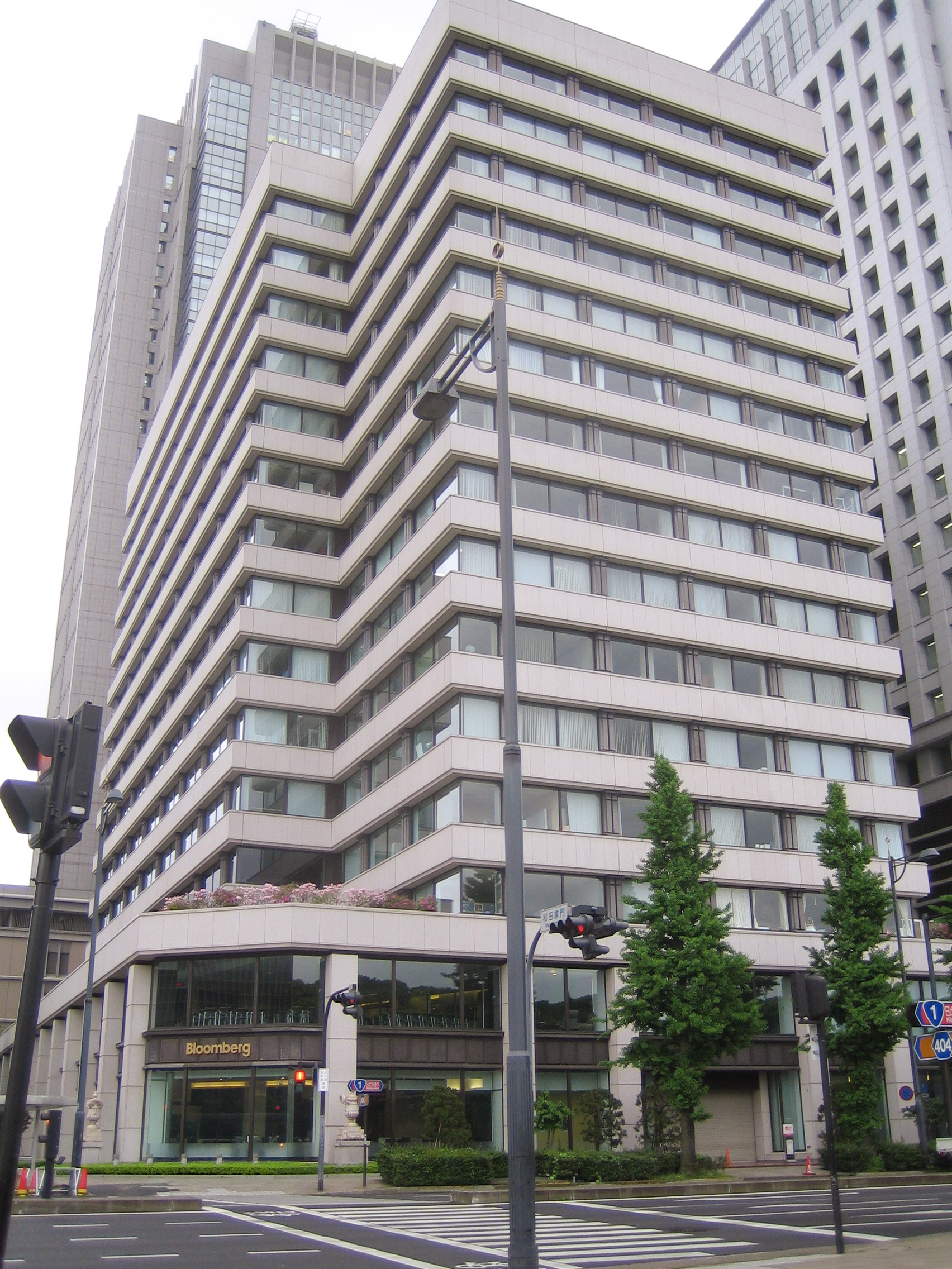 head office of NYK Line (日本郵船), at Marunouchi, Chiyoda, Tokyo, Japan